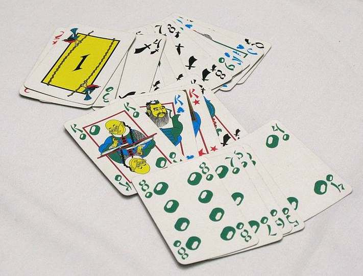 A selection of Tichu cards.